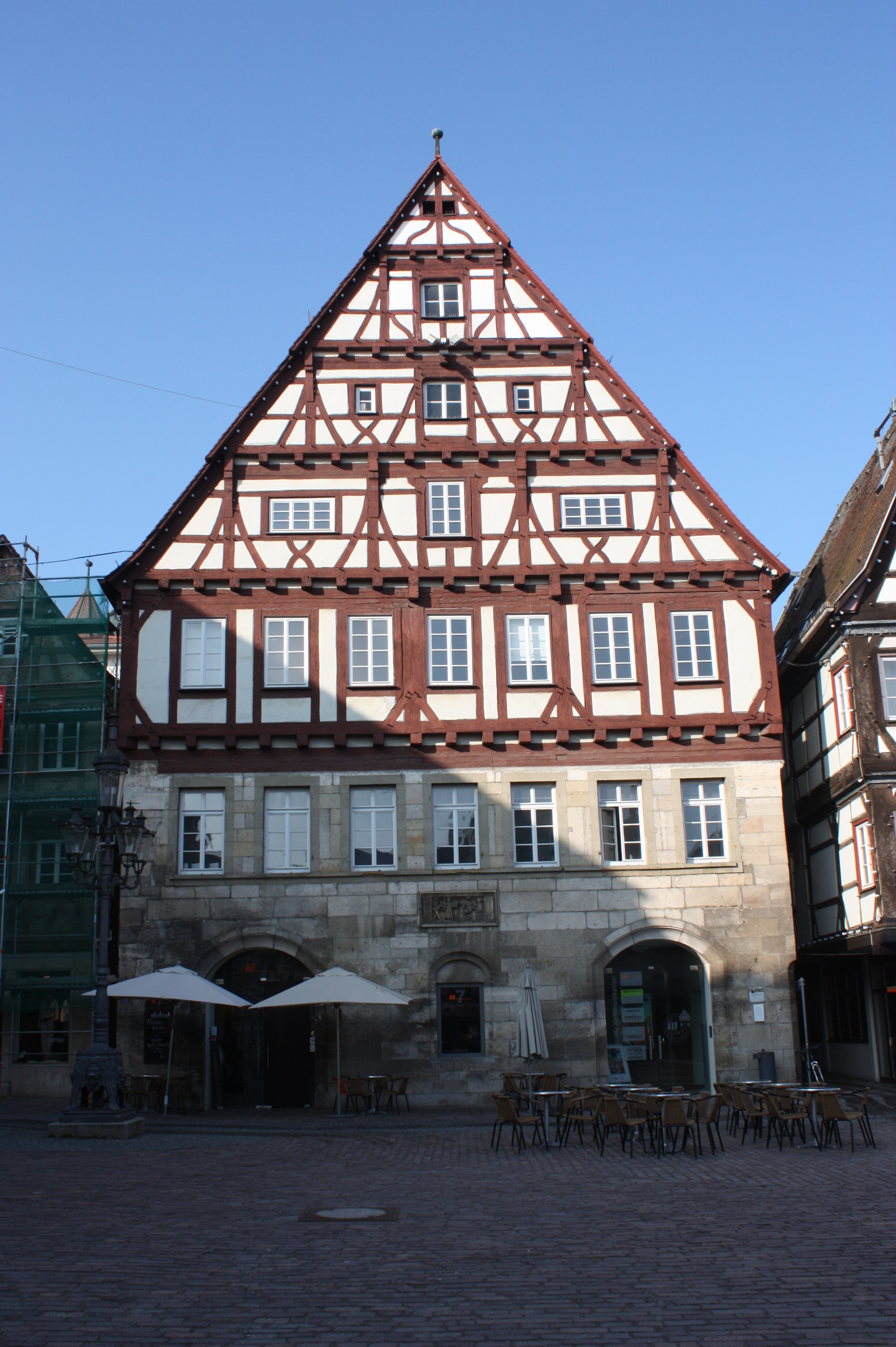 Graet Schwaebisch Gmuend at the marketplace